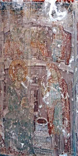 The Church of St. Nicholas at Ljuboten (1344-1345), The Ministry Cycle, Christ and the Samaritan Woman